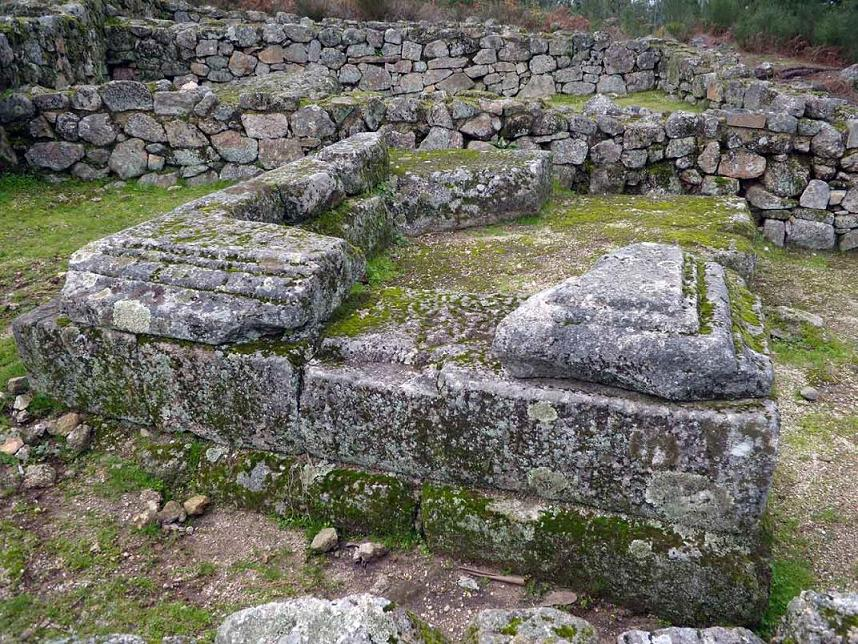 Hill Fort of Monte Mozinho, Roman base - Penafiel - Portugal